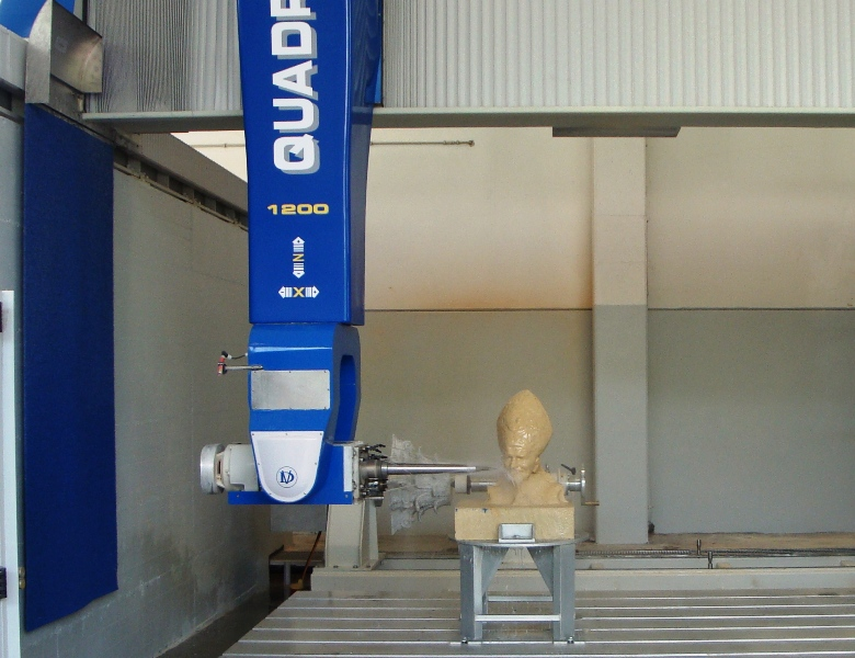 Processing of a statue with CNC cut center